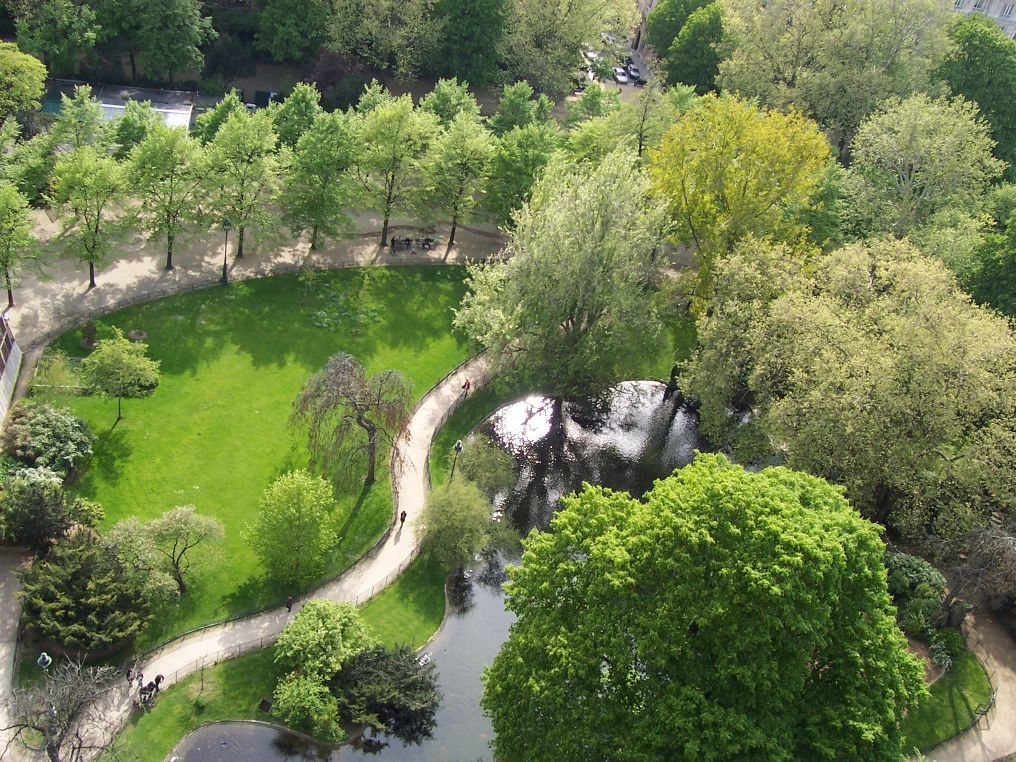 View of Champ-de-Mars park from the first floor of the Eiffel tower in Paris